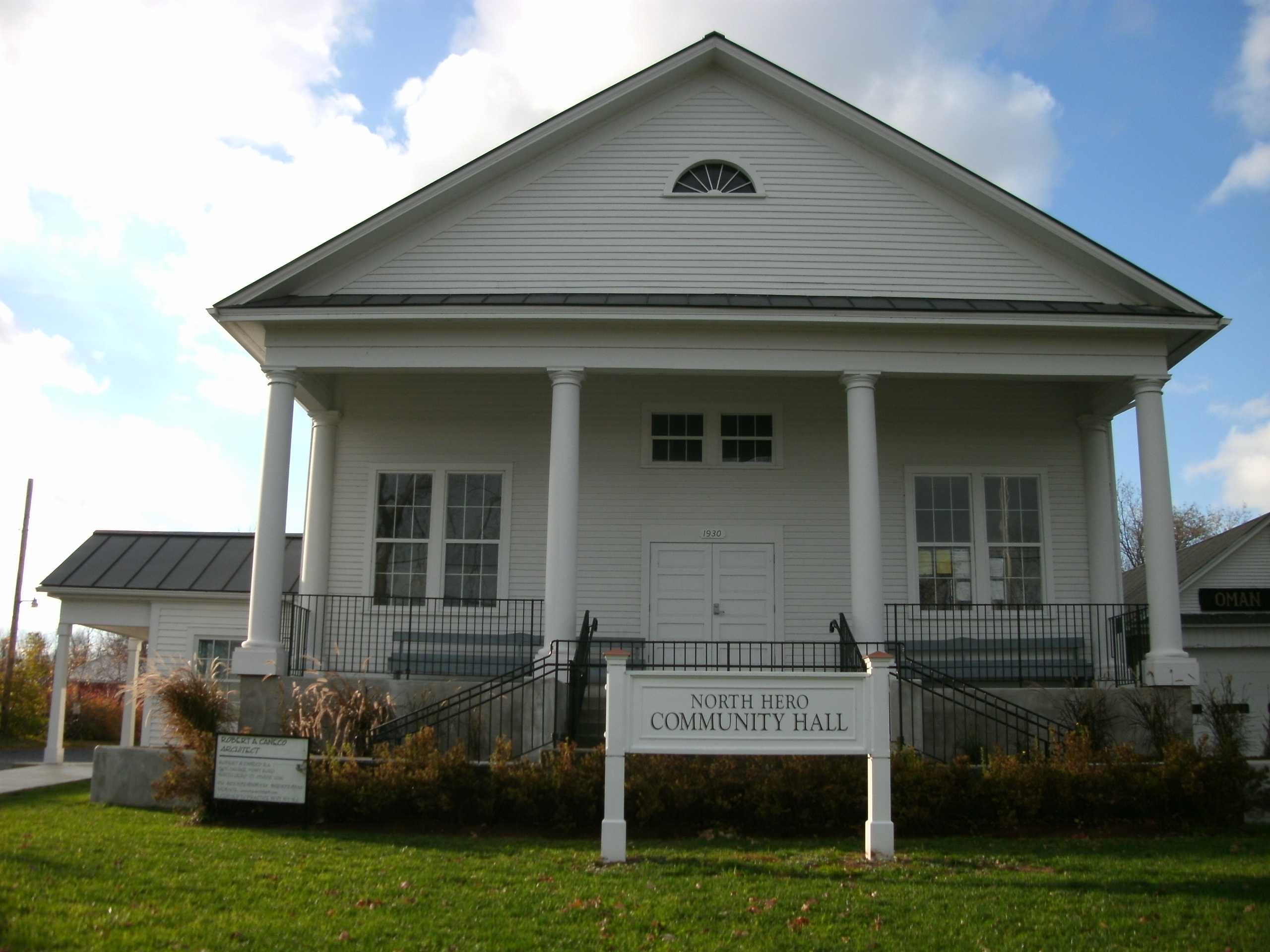 GE DIGITAL CAMERA North Hero, Vermont